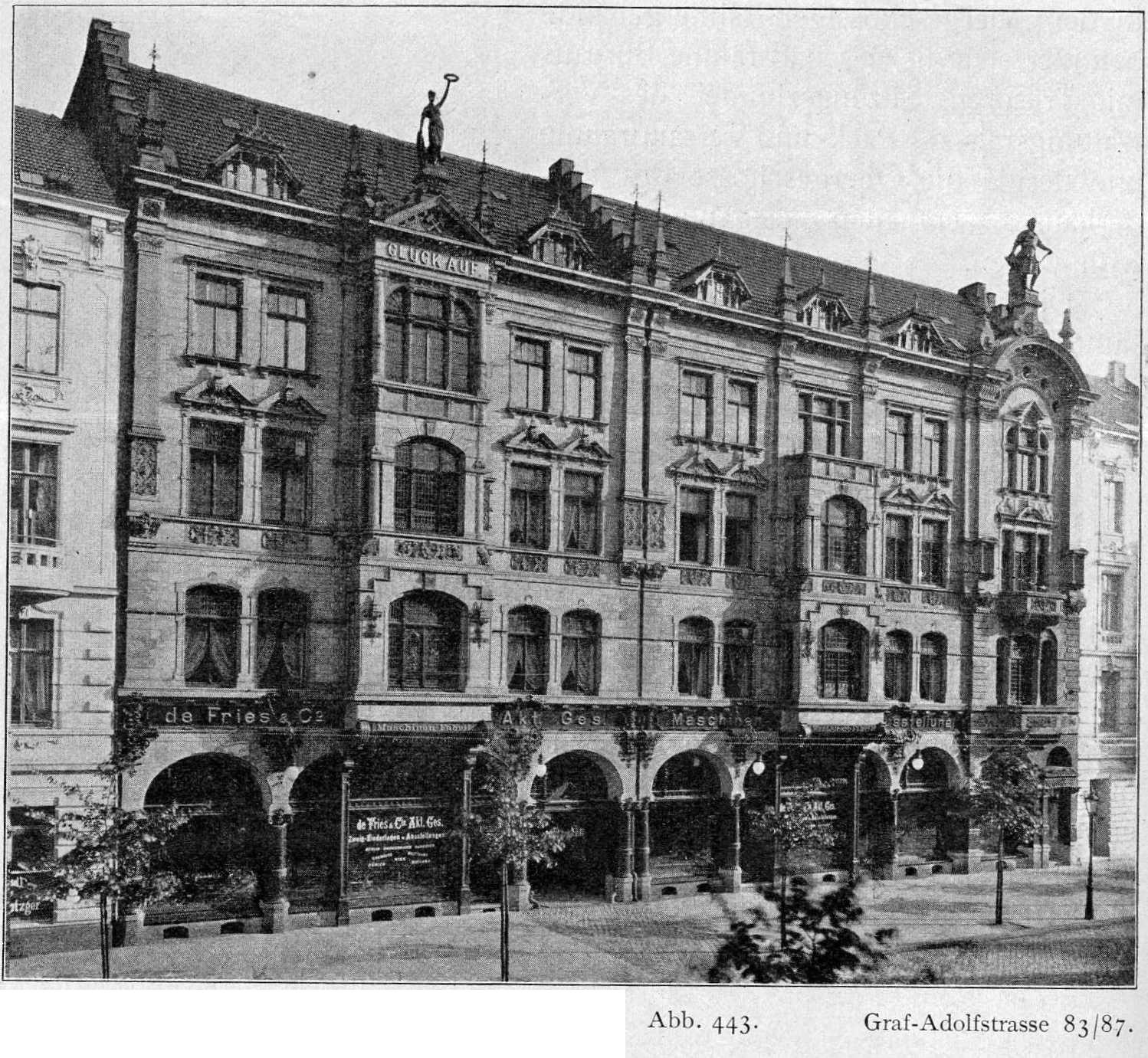 Geschäfts- und Wohnhausgruppe Graf-Adolf-Straße 83–87 in Düsseldorf, erbaut 1896 und 1898–1899, Architekt Heinrich Salzmann, Bauherr Aktiengesellschaft de Fries & Cie. (Werkzeugbau).jpg